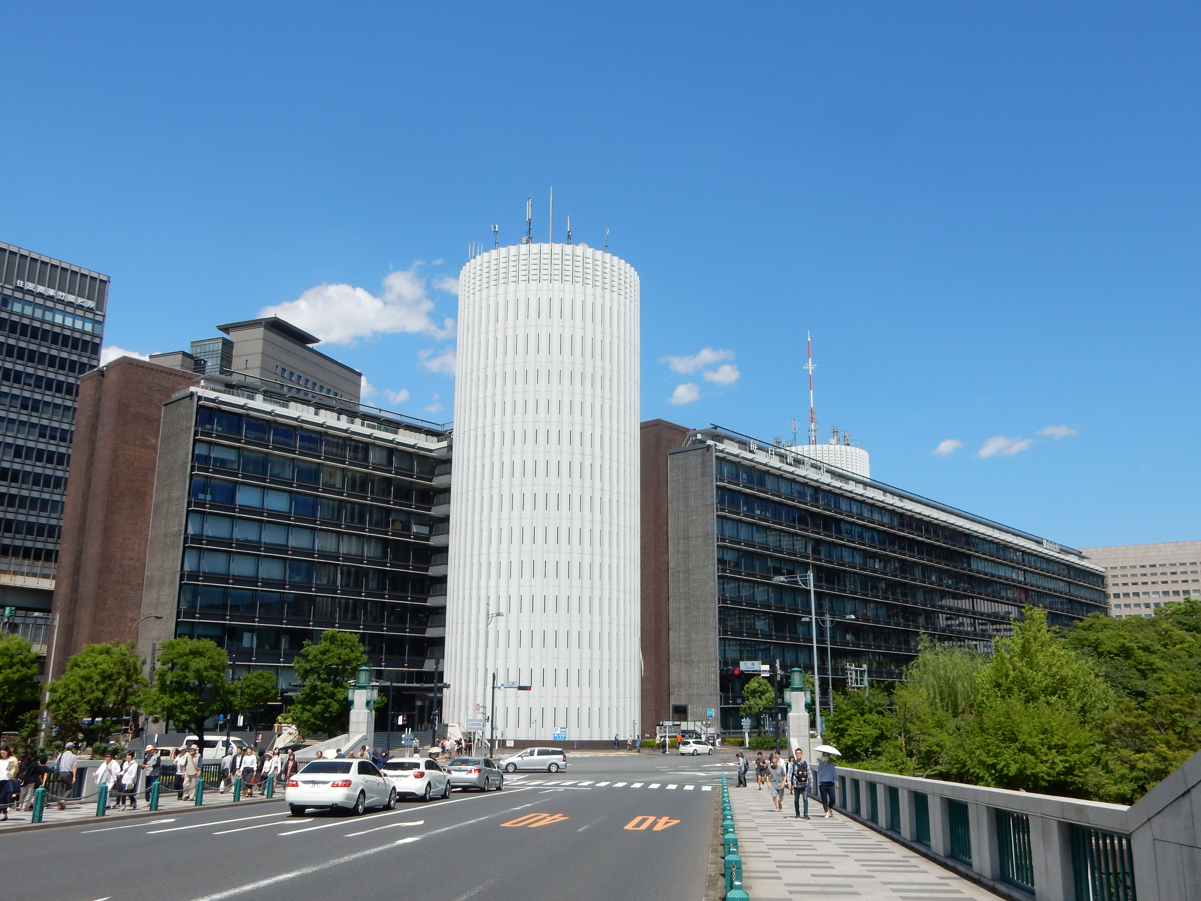 Palaceside Building (パレスサイドビルディング), located at 1-1-1 Hitotsubashi, Chiyoda, Tokyo, Japan